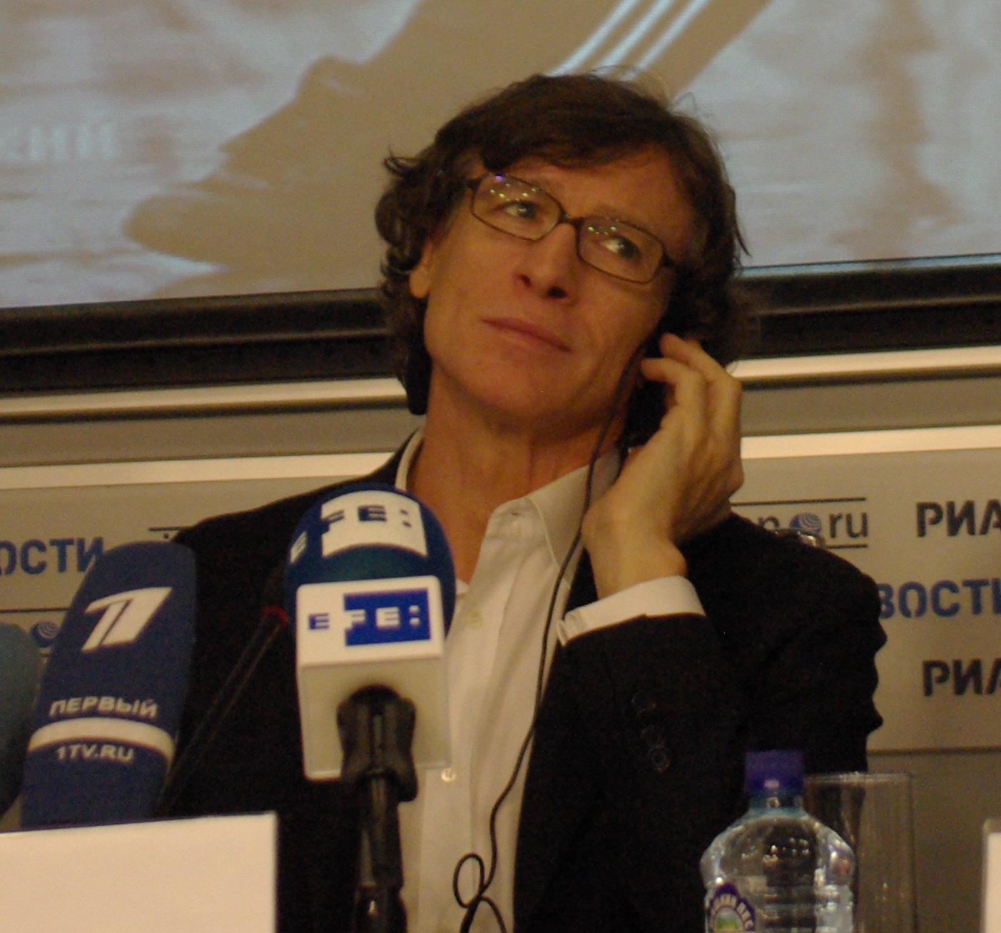 Nacho Duato during the Moscow press-conference where he announced his contract as Artistic Director of the Mikhailovsky Ballet at the Mikhaylovsky Theatre, July 28 2010.